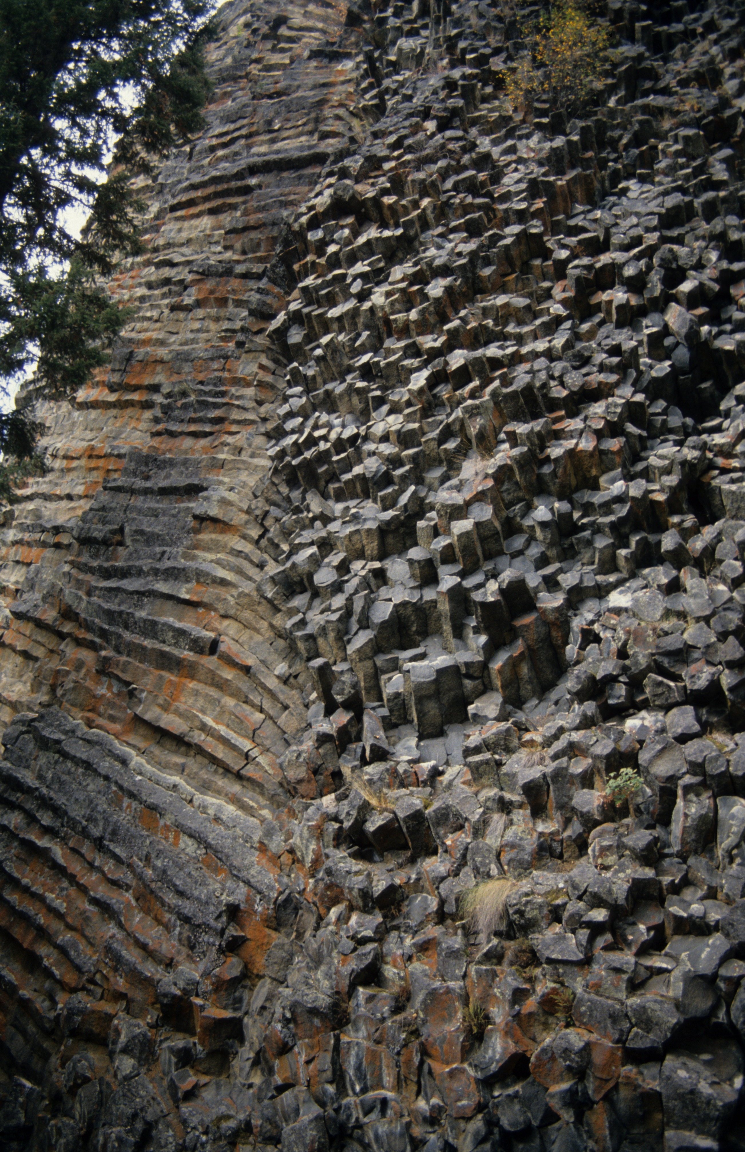 Photo by Roland Neave, contributor to White Horse Bluff article. From personal Wells Gray Park collection.